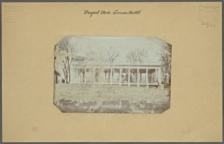 Irma and Paul Milstein Division of United States History, Local History and Genealogy, The New York Public Library. "Brooklyn: Prospect Park - Grecian shelter." The New York Public Library Digital Collections.